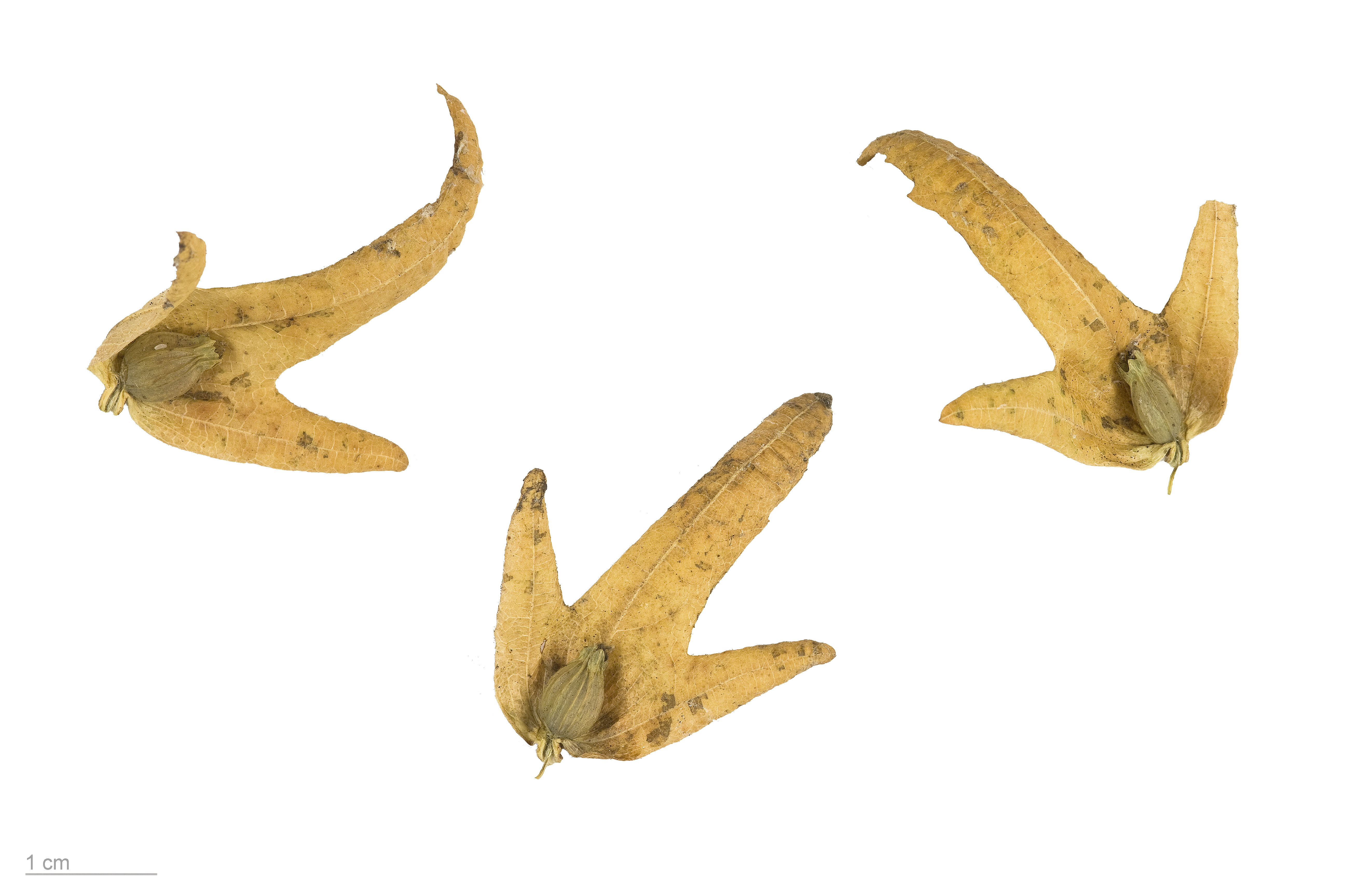 European or common hornbeam , fruits and seeds